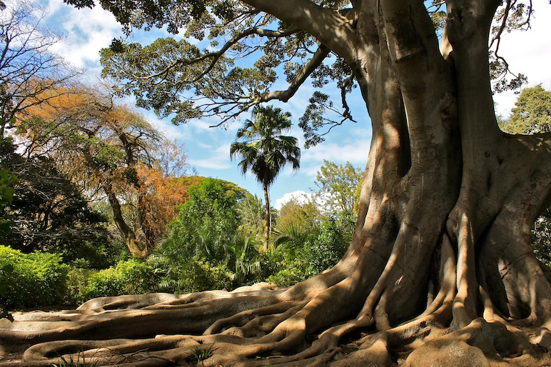 A photograph of a palm tree with Moreton Bay fig in foreground.